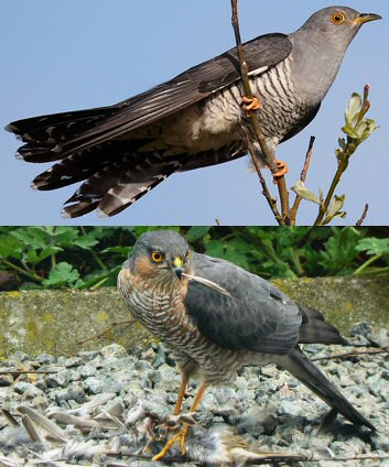 Images of European Cuckoo. Cuculus canorus, and Sparrowhawk, Accipiter nisus, showing the extent of mimicry.